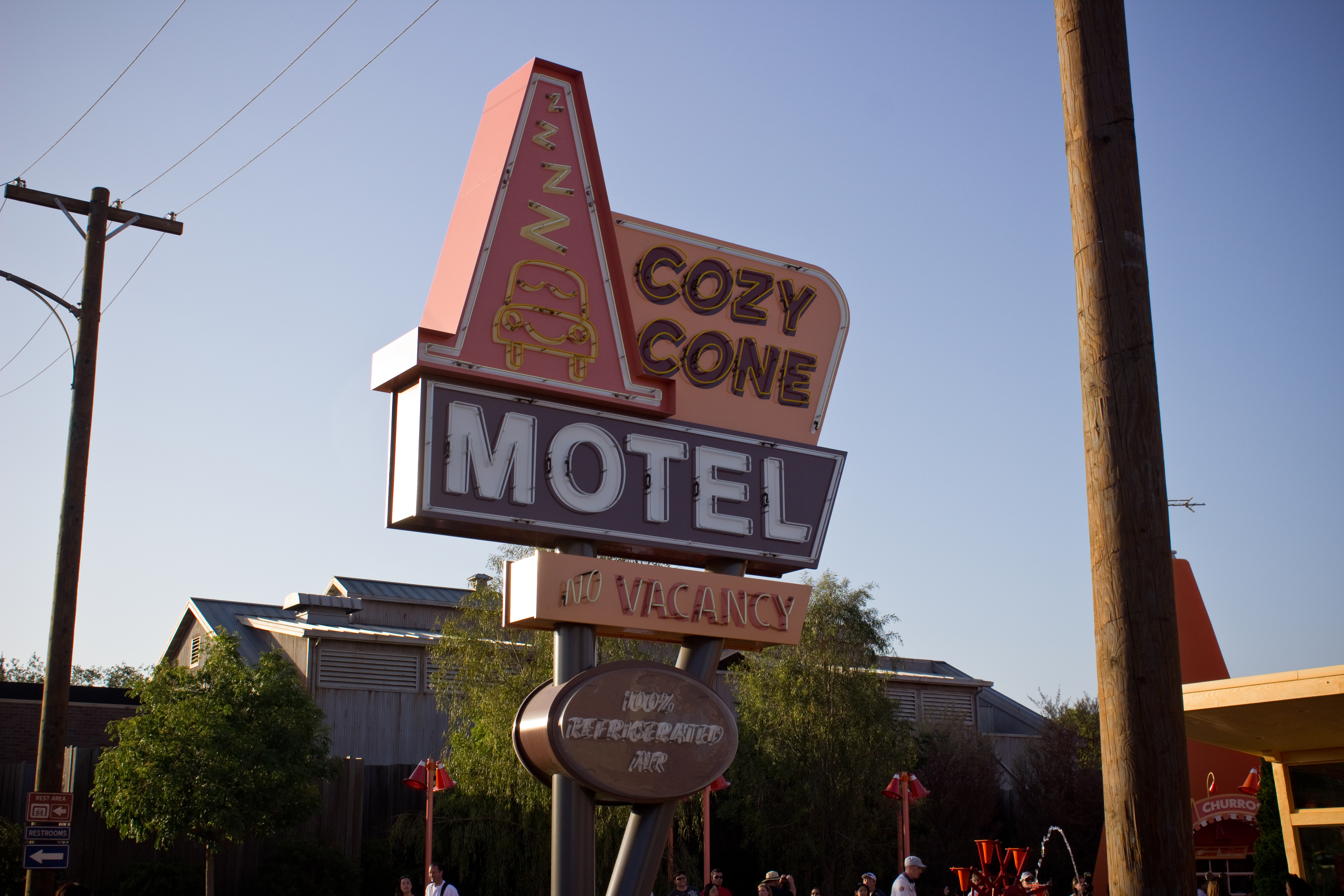 Cozy Cone Motel in Cars Land at Disney California Adventure.